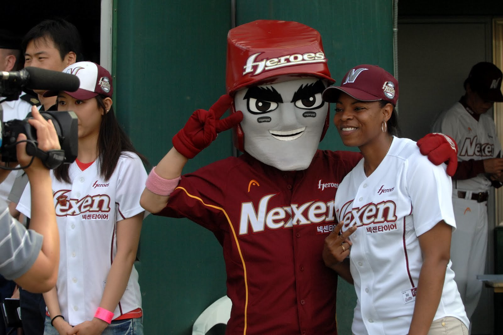 Nexen Heroes Baseball Game - 20JUN2010-Photo by SSG Nicholas Salcido - 09